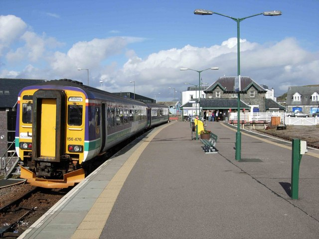 Mallaig Station A Glasgow train awaits departure from Mallaig. Note the snowplough - an essential requirement on the West Highland Line during the winter months. The railway to Mallaig, built in 1901, was instrumental in the town's development as a fishing port and until 1966 the railway extended beyond the station to the pier. Today, however, the fish traffic goes by road.